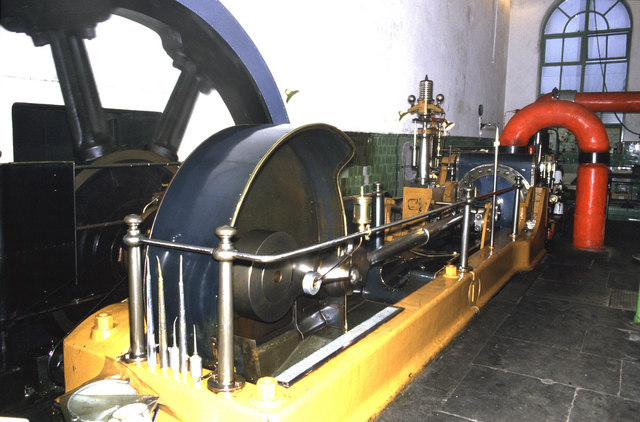 Mill engine, Queen Street Mill, Burnley. William Roberts horizontal tandem compound engine - 'Peace'. This is an earlier colour scheme. This was the last traditional mill engine to run and is preserved in working order.